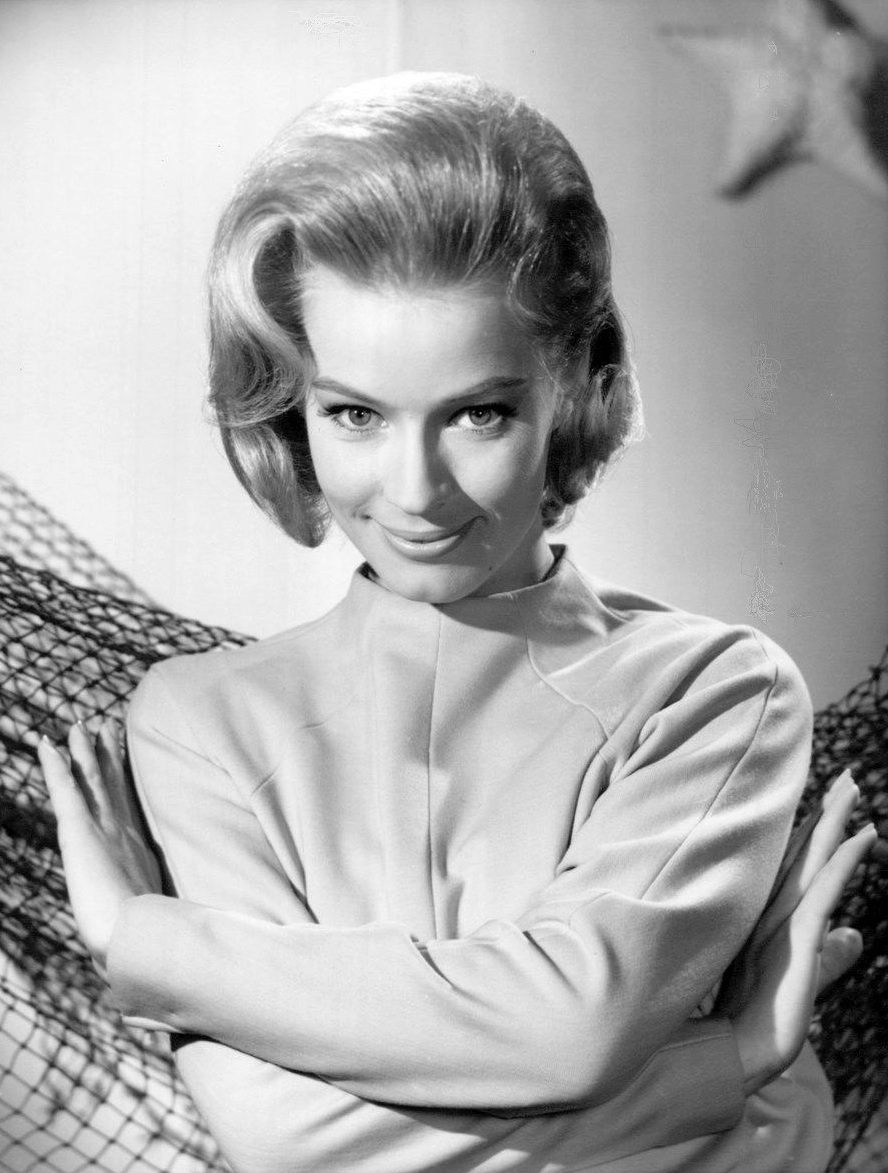 Photo of Ulla Stromstedt as Ulla Norstrand from the television series Flipper.